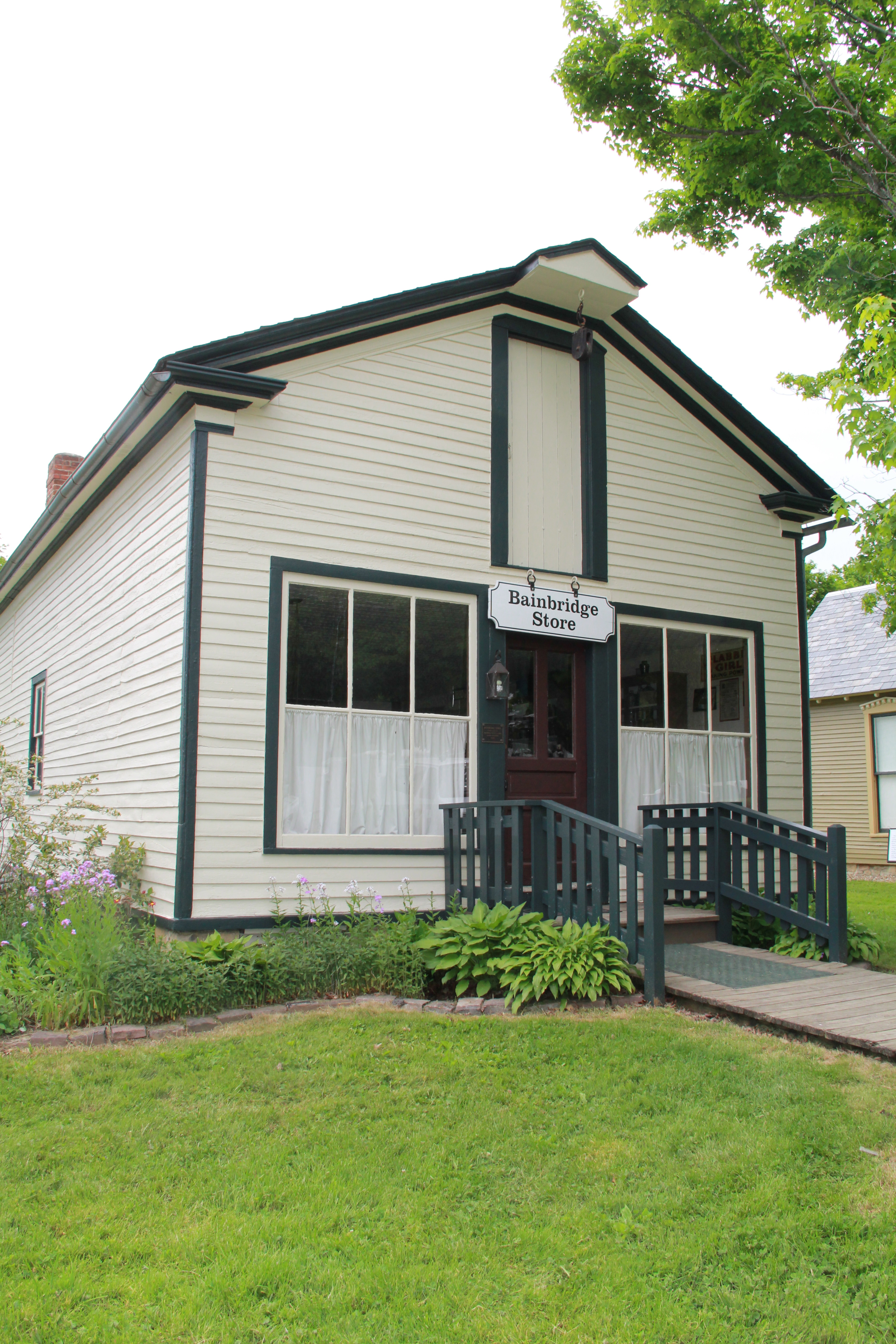 Burton, Ohio, May 2015.